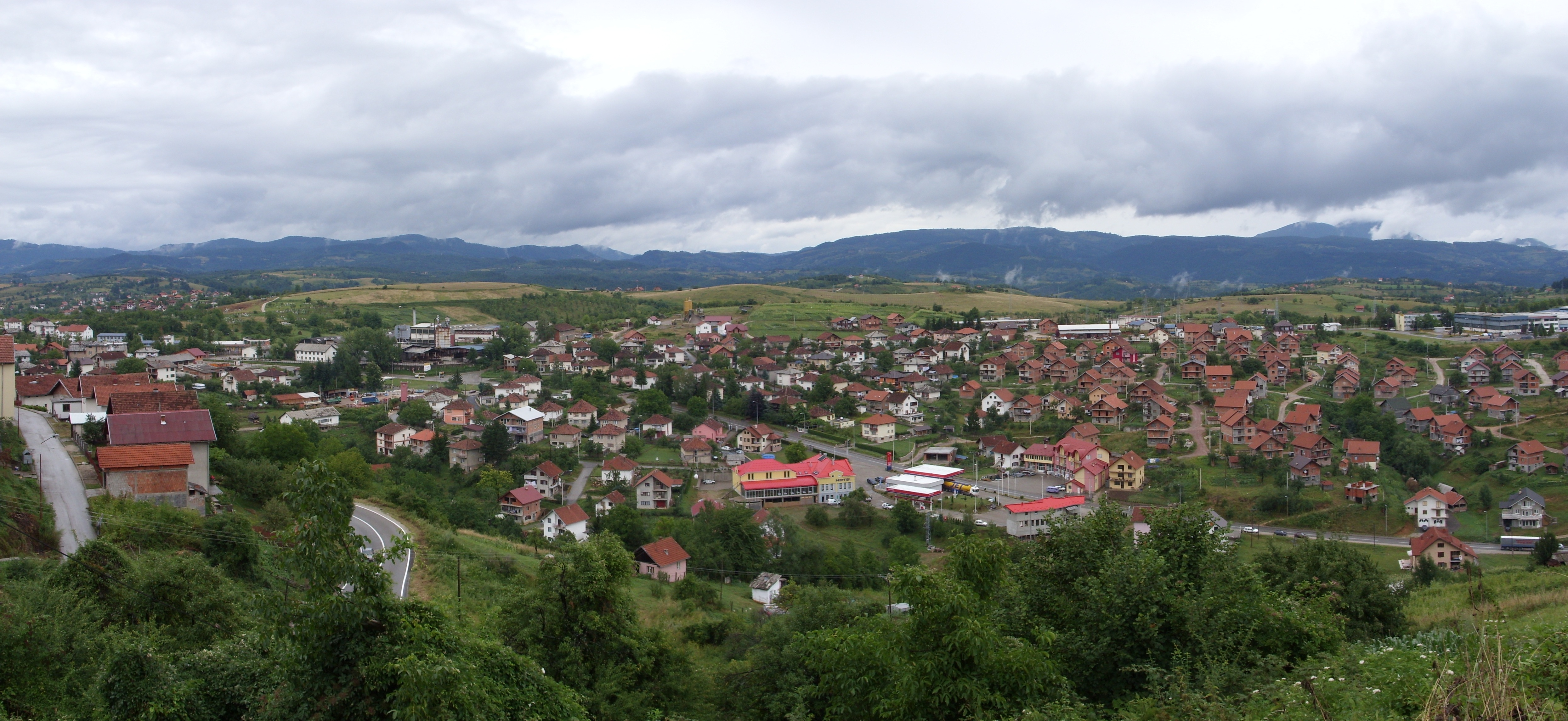 View on Vlasenica (Bosnia and Herzegovina).